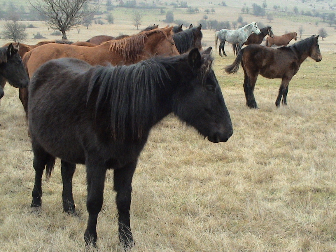 Bosnian Pony